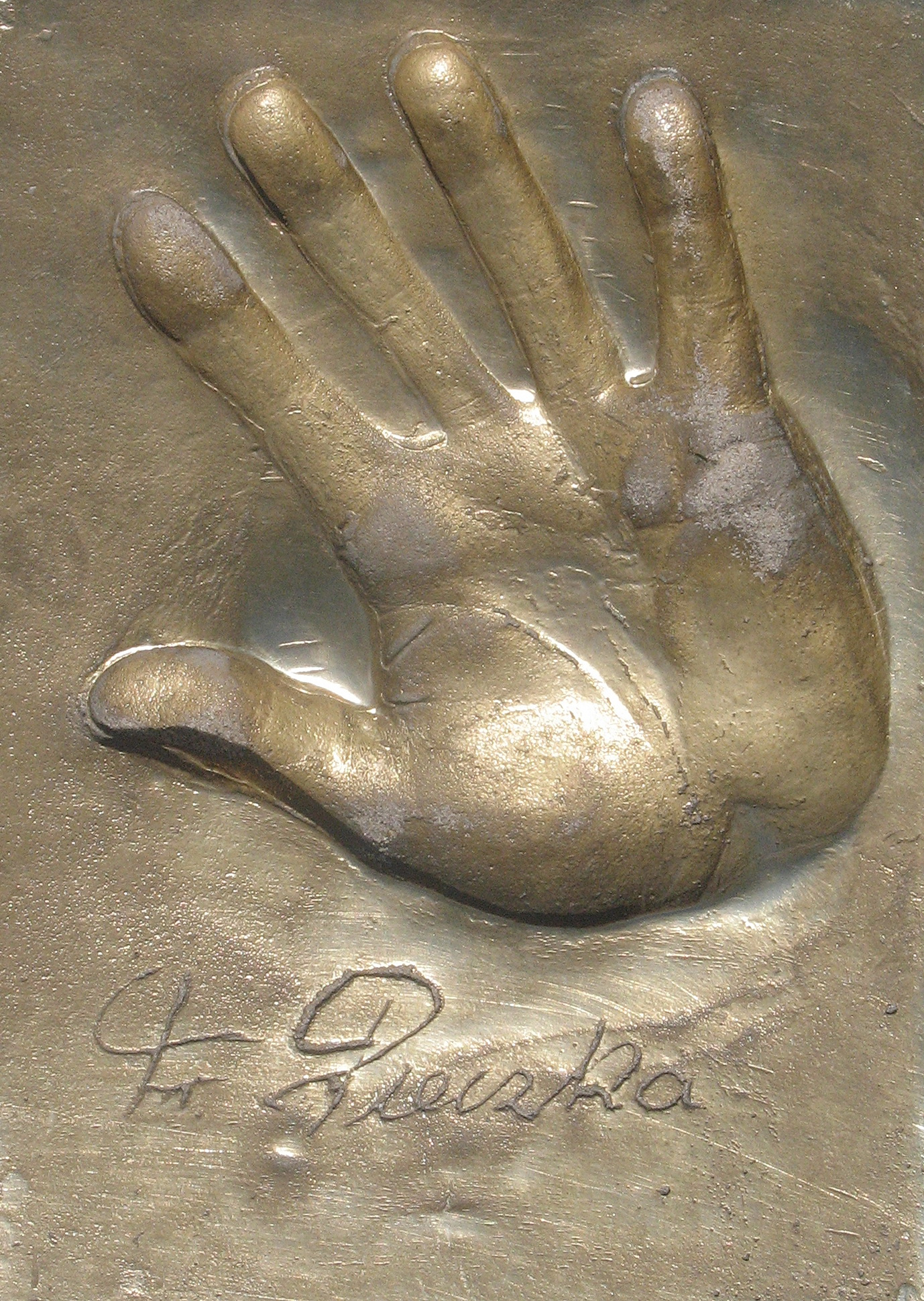 Franciszek Pieczka - handprint and signature in Międzyzdroje